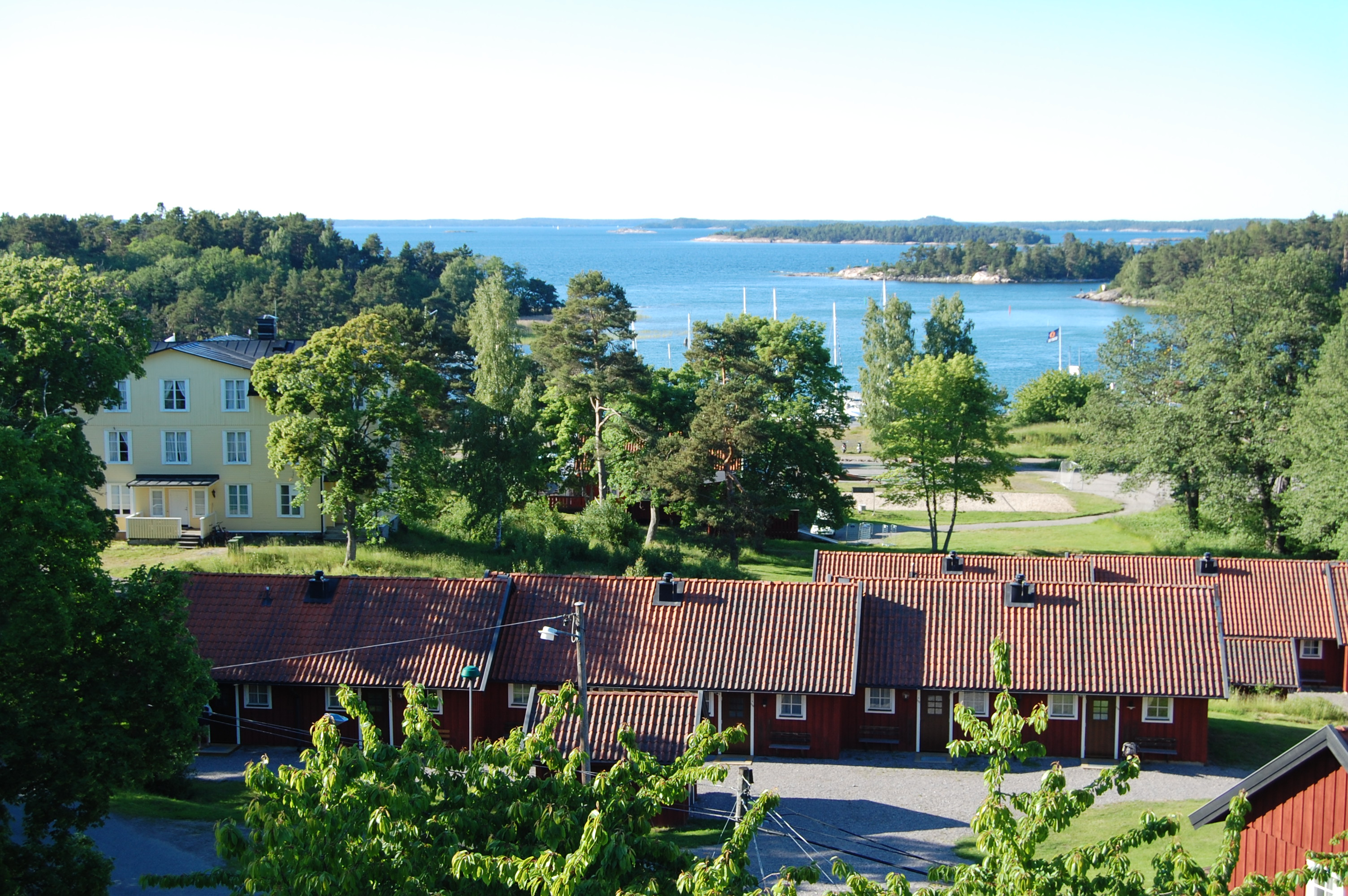 Utö